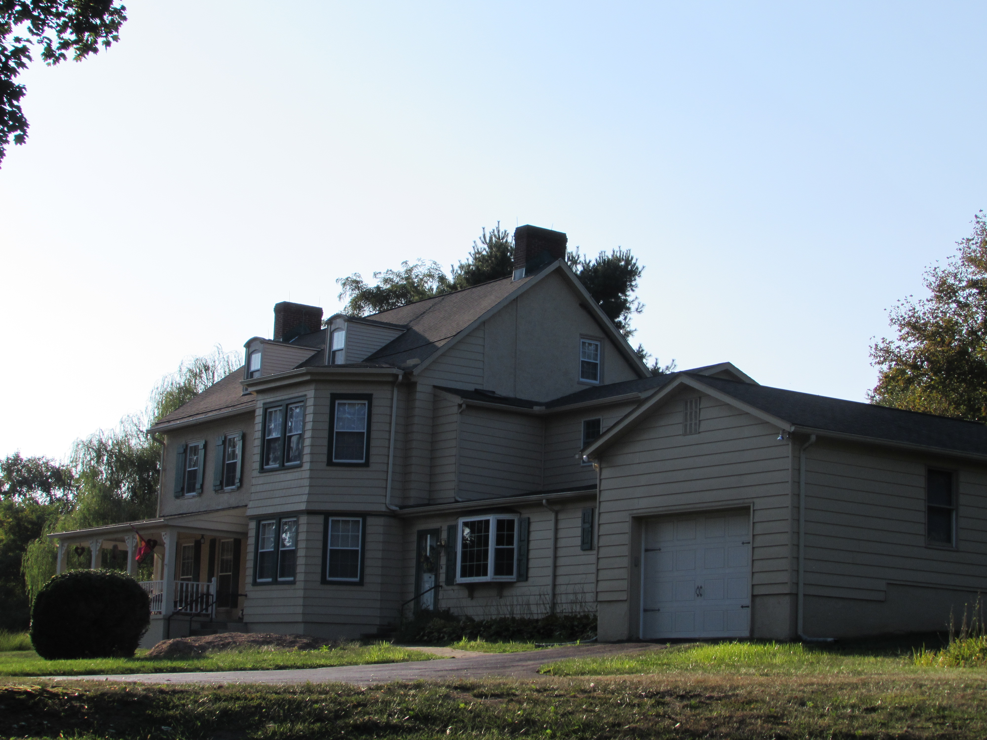 View looking west at the J. McDaniel Farm house, built 1826. The original house is stucco over fieldstone.